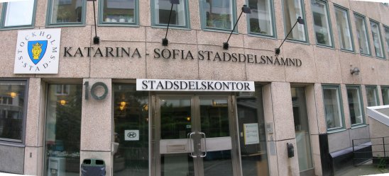 The offices of the borough council of the former borough of Katarina-Sofia in Stockholm.